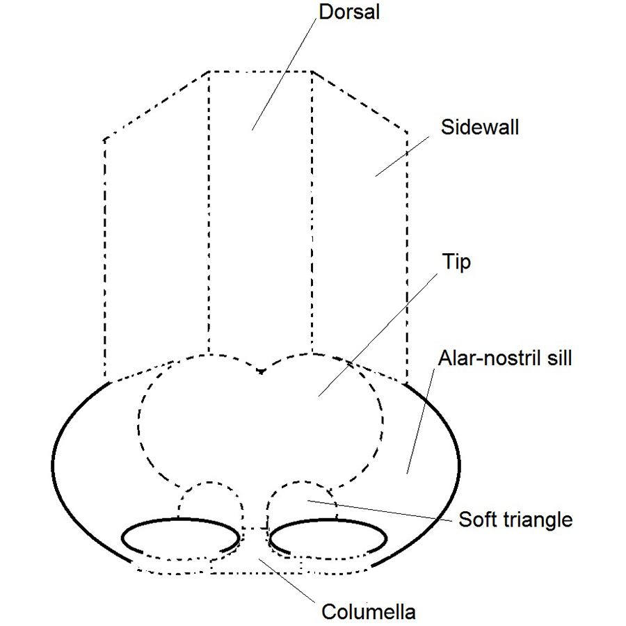 The surgical nose: the aesthetic nasal subunits for rhinoplastic correction.